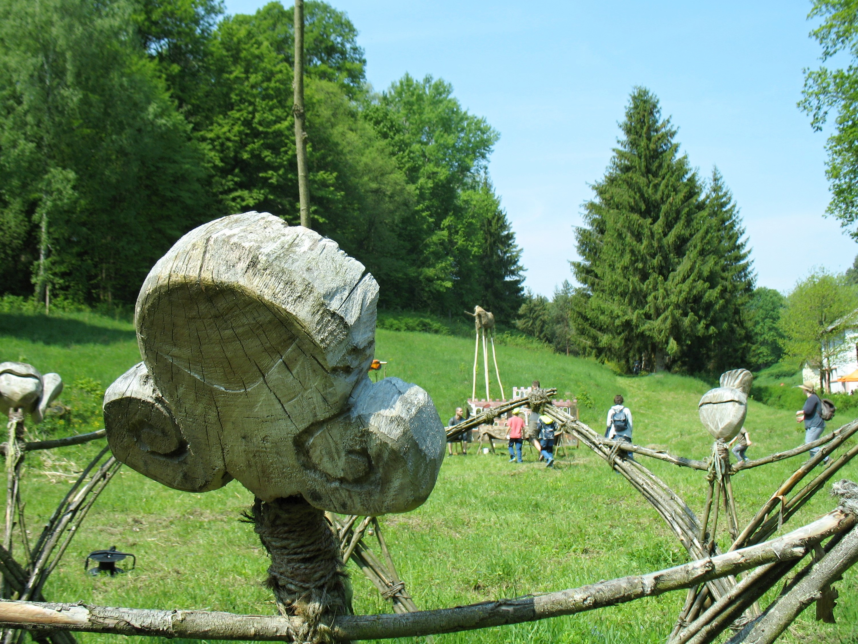 Land art Festival in national Geopark Ralsko 15. 5. 2019, former Jabloneček village, Ralsko, Česká Lípa District, Liberec Region, Czech Republic